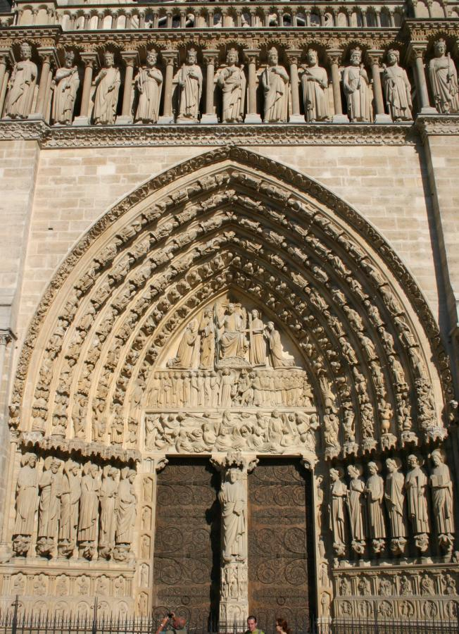 Notre-Dame de Paris, westfront, portal of the last judgement